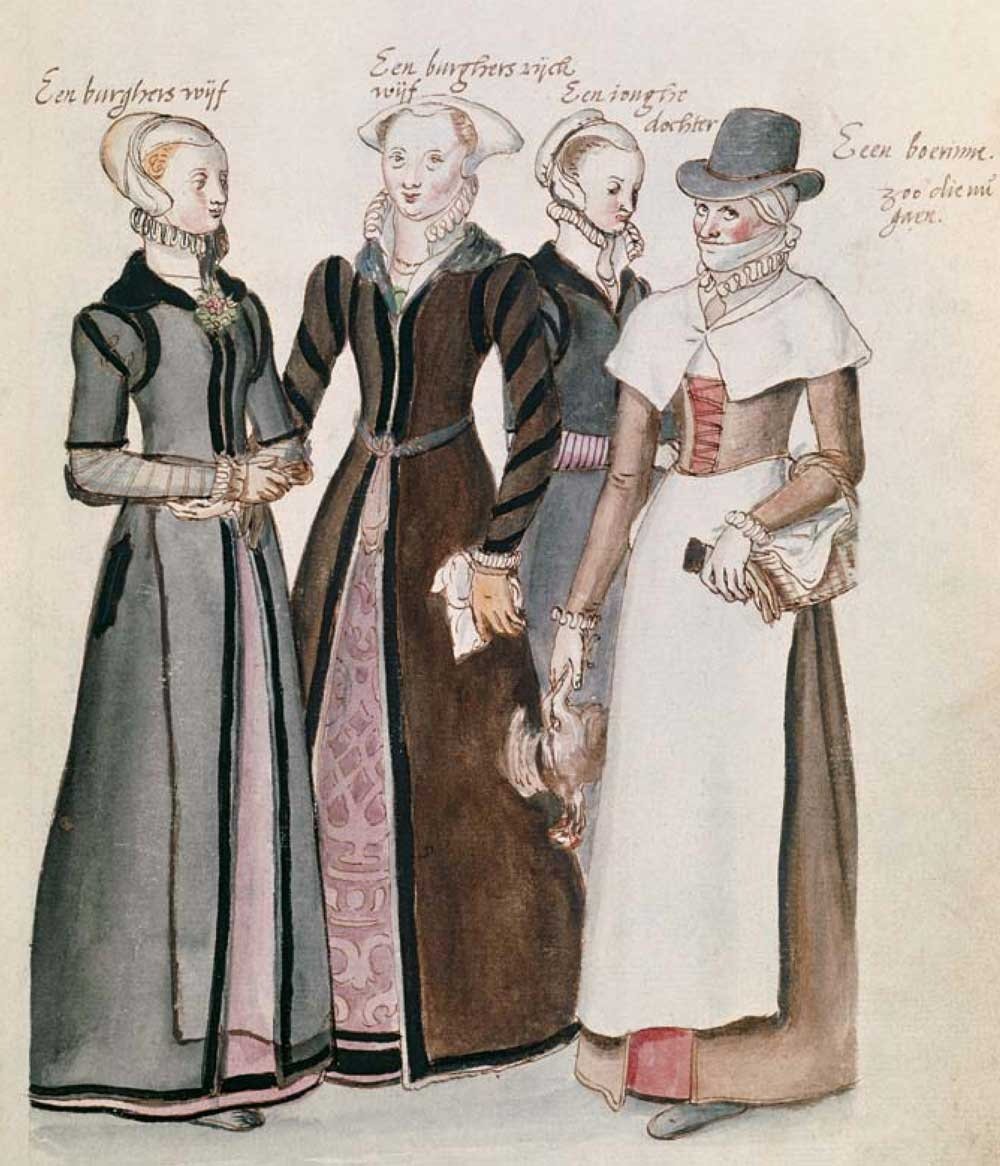 color sketch of three London gentlewomen and a countrywoman come to market, from the manuscript Corte Beschryuinghe van Engheland, Schotland, ende Irland, c.1574.